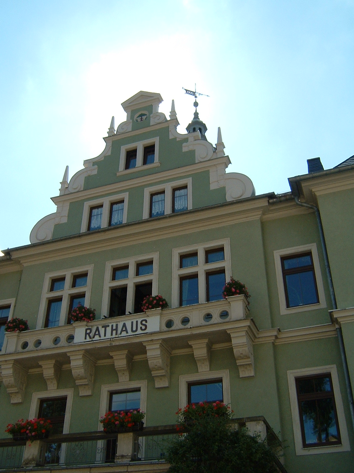 Schönheide - Ore Mountains Townhall from 1882